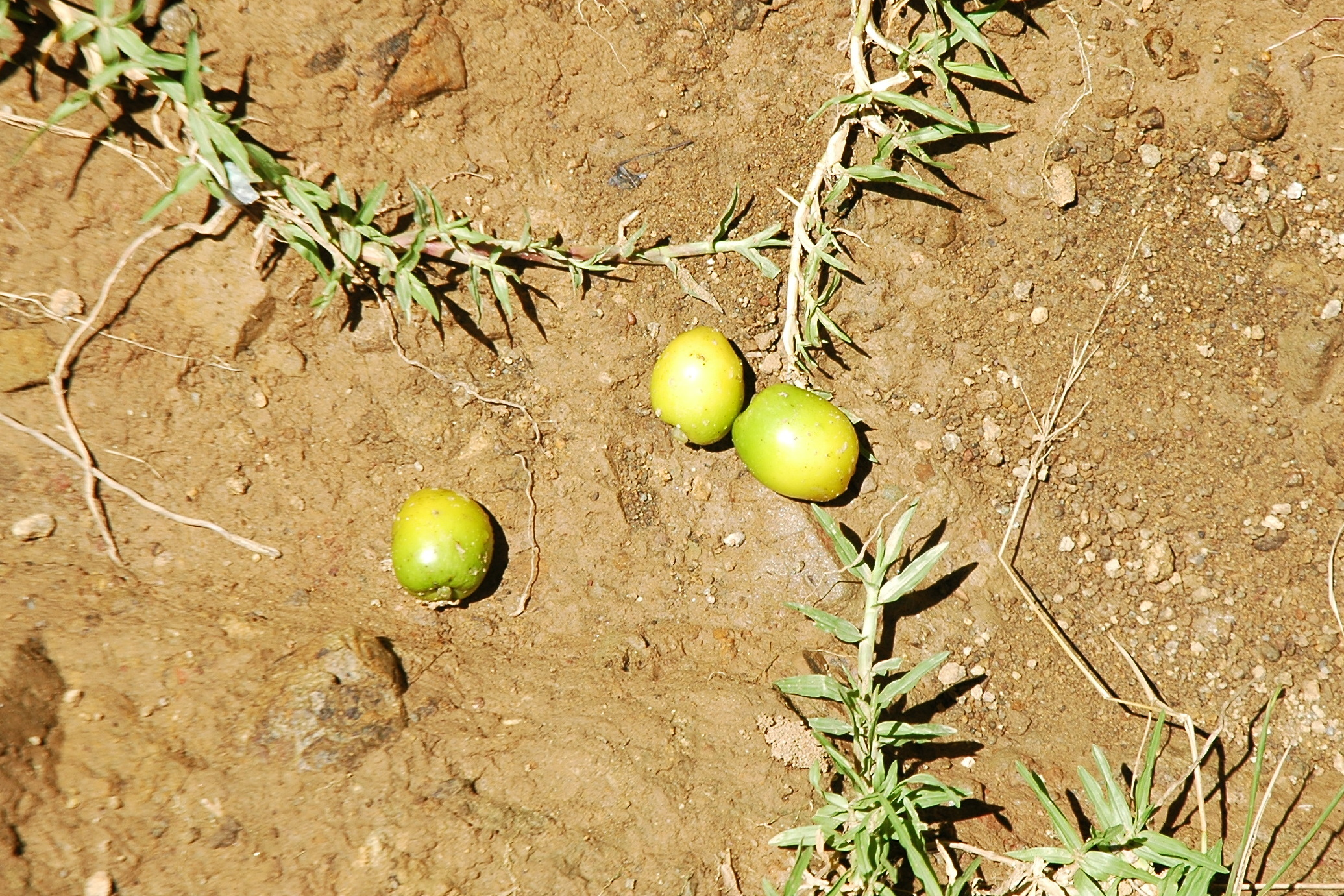 Fruits of the tree Gmelina spec. found in the LGU of Valderrama, Philippines